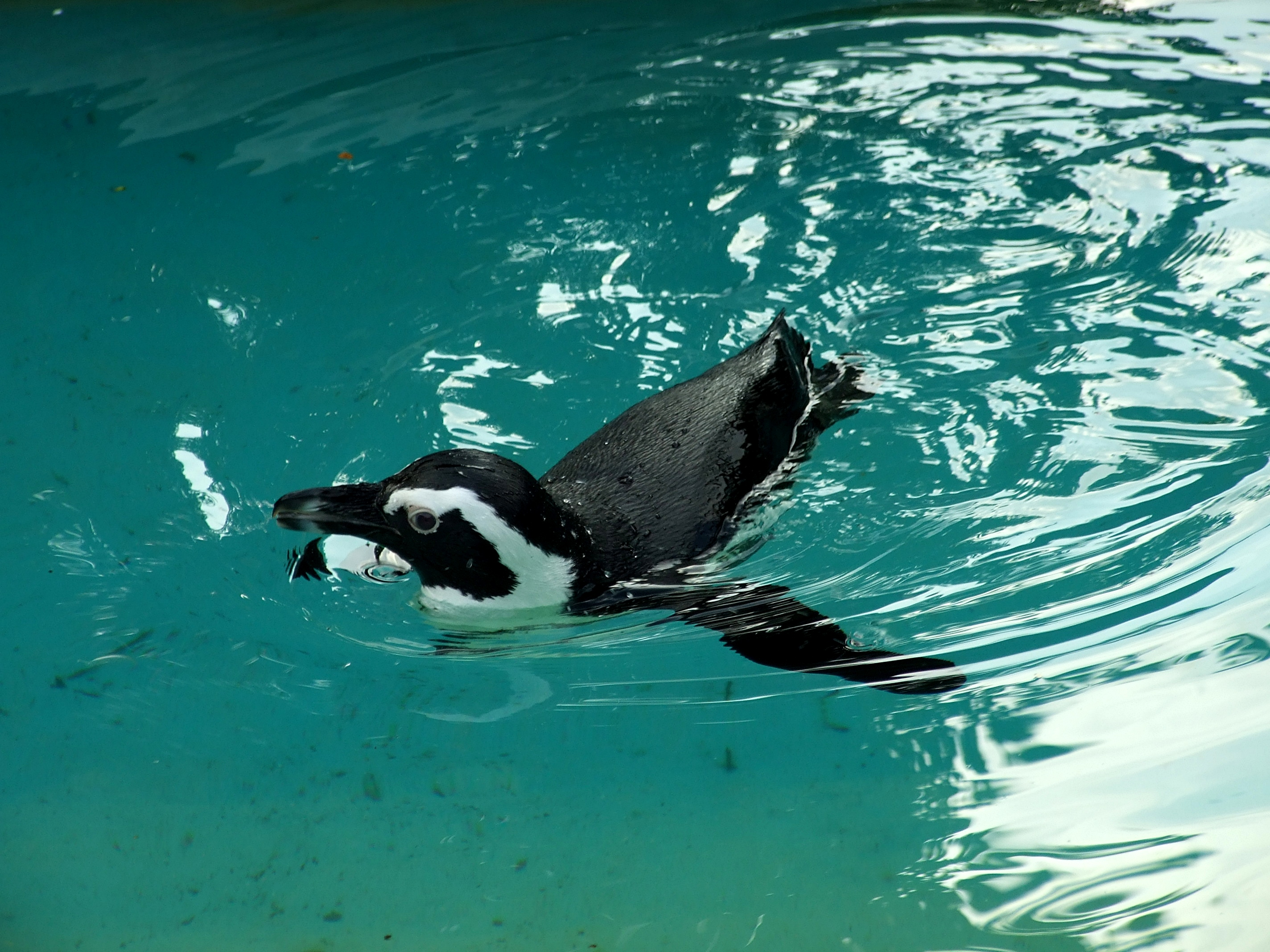 African Penguin, Zoo Leipzig, Germany